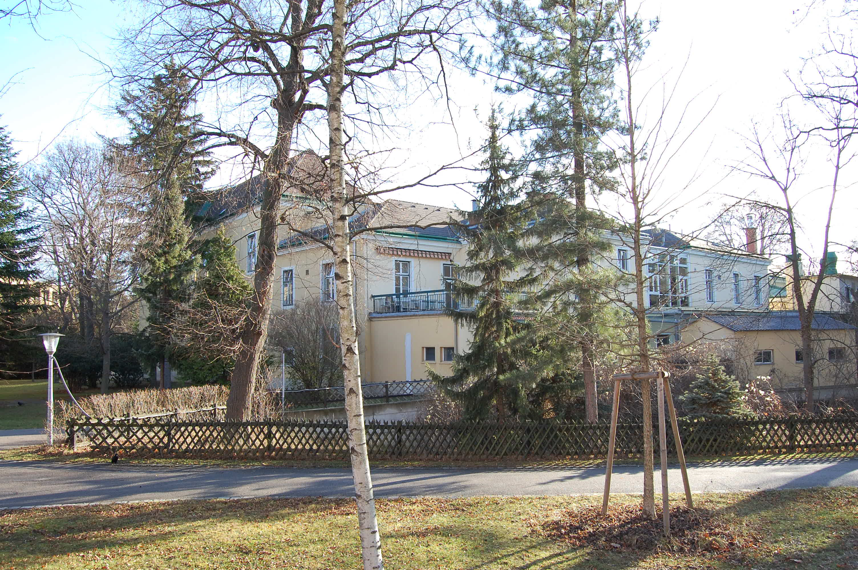 Vienna Austria: Liesing castle